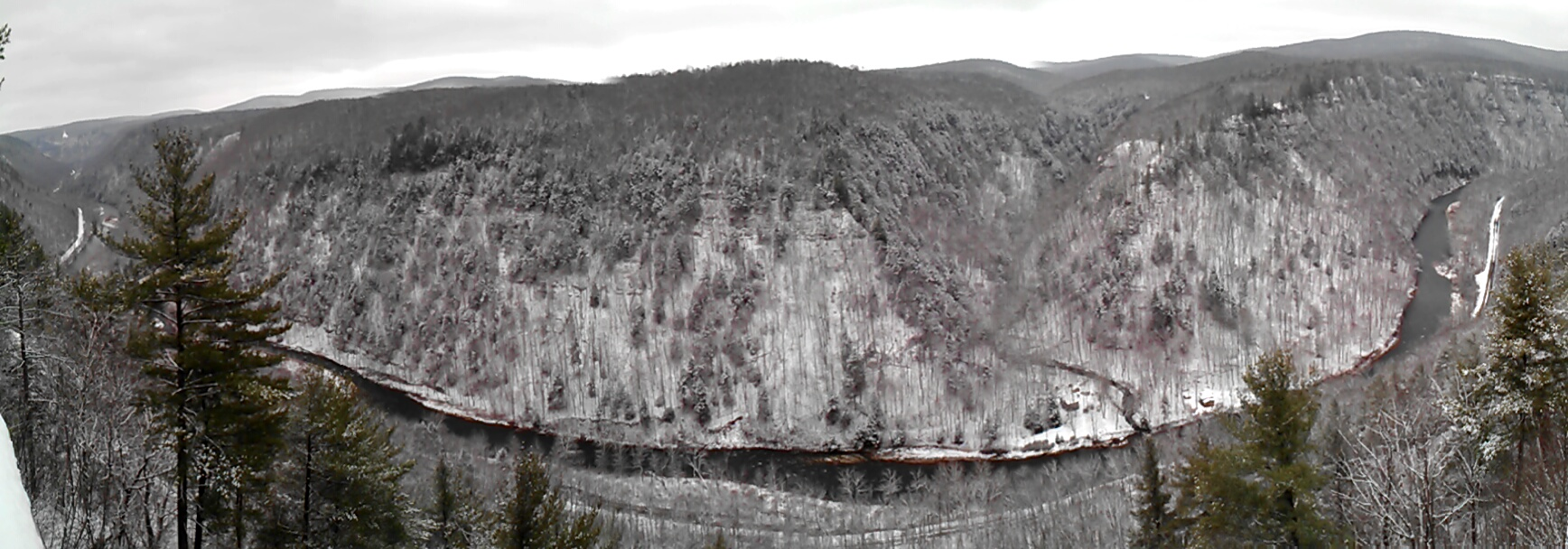 A panoramic shot of the pine creek gorge from Leonard Harrison State Park, PA after a fresh snowfall. Pine Creek Gorge